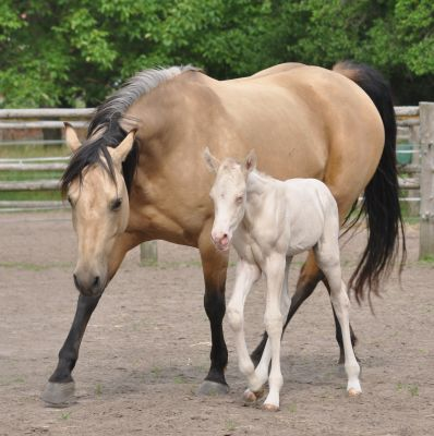 Quarab mare with Quarab foal cremello